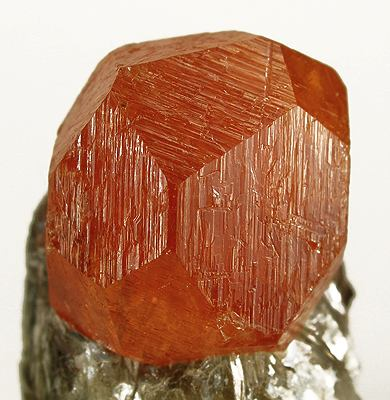 Muscovite, Spessartine Locality: Loliando, Tanzania Size: miniature, 4.2 x 2.7 x 2.1 cm Spessartine Garnet on Muscovite Despite the vast flood of inferior quality garnets that came out of this place recently, it is still true that sharp, pristine, crystals of good color and size are not as common aspeople think. Most of the best crystals came out in the beginning and wha tis available now , if seen in person, is simply not as gemmy, colorful, and pristine of bruises as what we saw at the recent shows. And, after 8 months now of production, the finest quality sharp orange garnets in matrix remain VERY rare. I ahve seen many almost-rans, but this one is among the best matrix pieces I have had now for overall quality. The color is intense,m the form perfect, and it has no damage at all. The crystal is almost 2 cm tall, and looks like a glowing orange carving on its perch of sparkling muscovite.